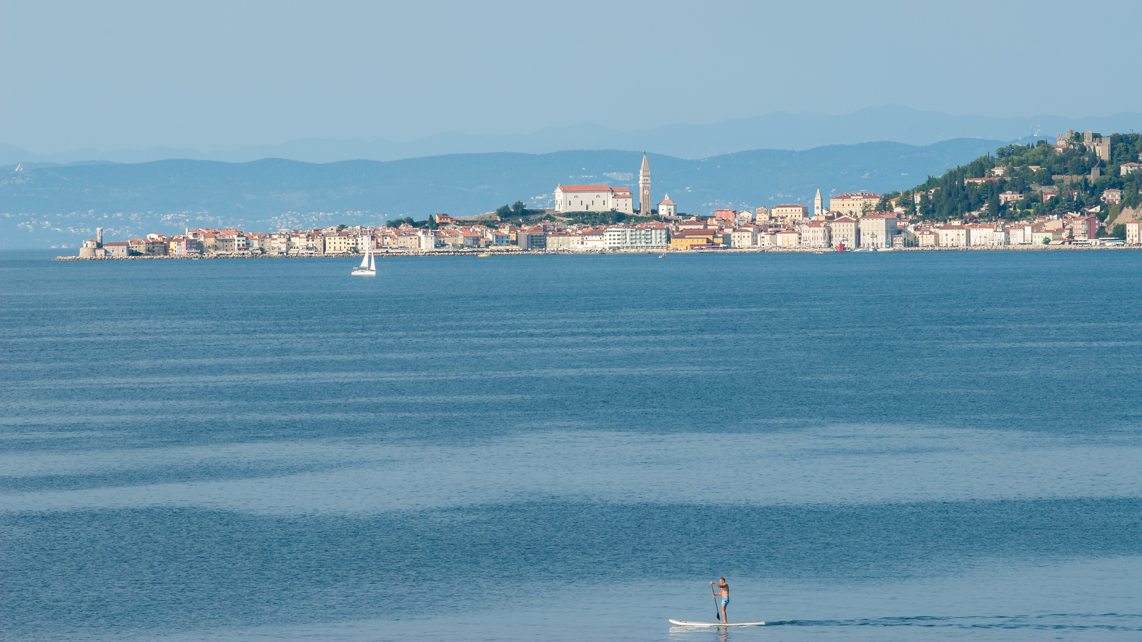 Piran from SavudrijaSlovenščina: Pogled na Piran s Savudrije (Crveni vrh).